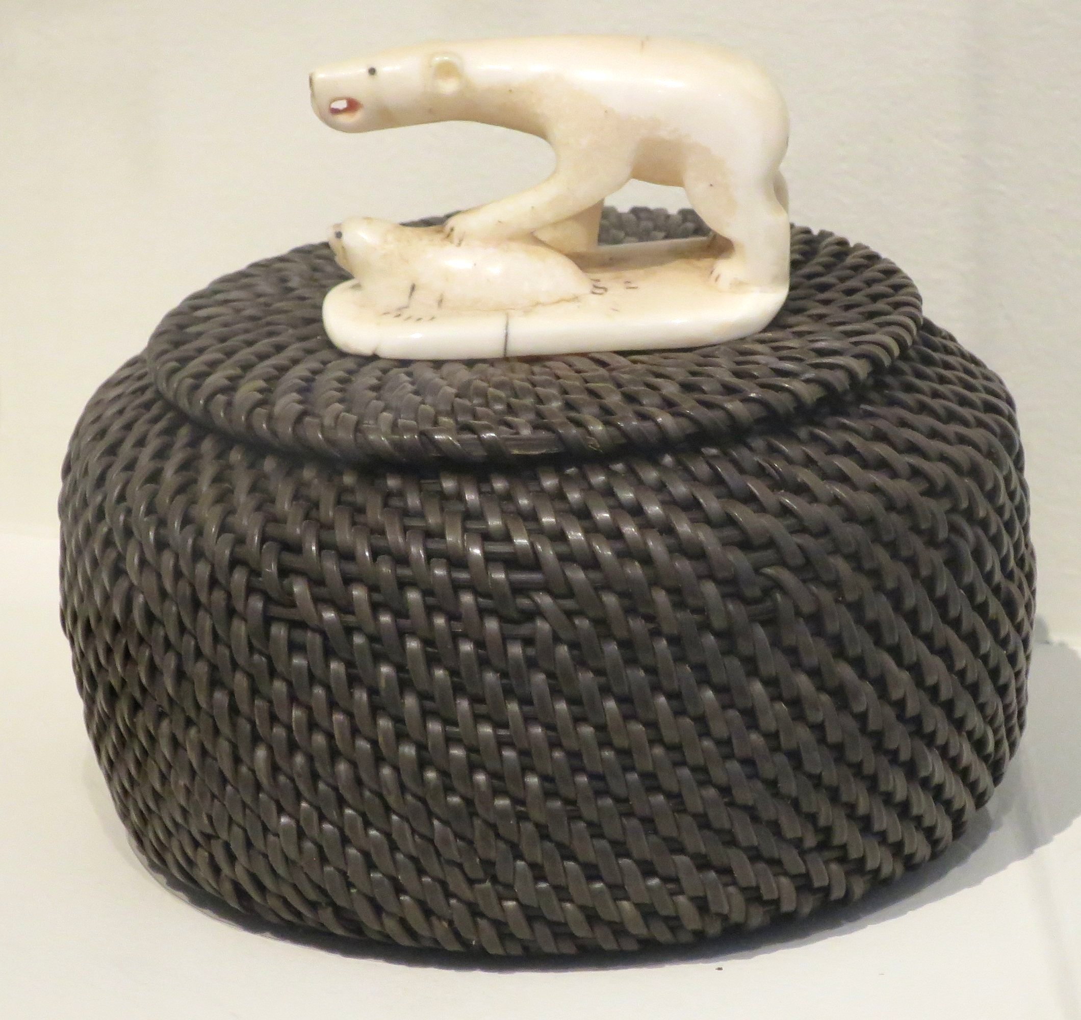 Basket with bear and seal carving by George Omnik, Point Hope, Alaska, Eskimo, coiled, rattle cover, baleen, whale ivory, Honolulu Museum of Art accession 5033.1